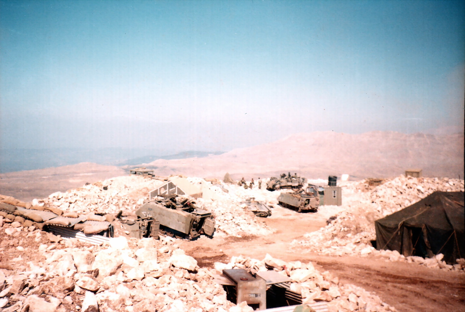 מוצב חבצלת היה המוצב הצפוני ביותר מבין מוצבי צה"ל באזור ג'בל ברוך.